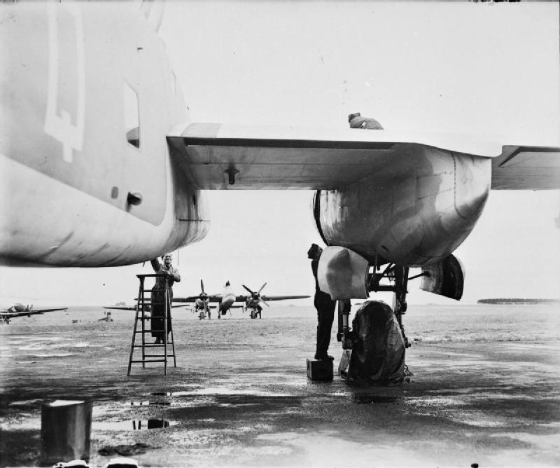 Royal Air Force Transport Command, 1943-1945. Ground crew servicing Bristol Buckingham C Mark Is of the Air Transport Tactical Development Unit at Netheravon, Wiltshire.